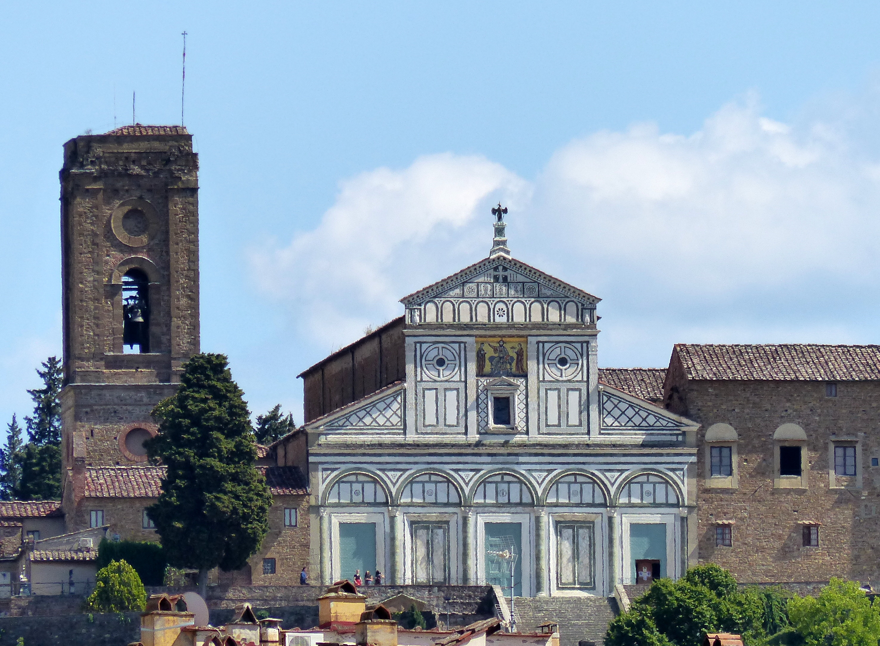 San Miniato al Monte (Florence) - Exterior